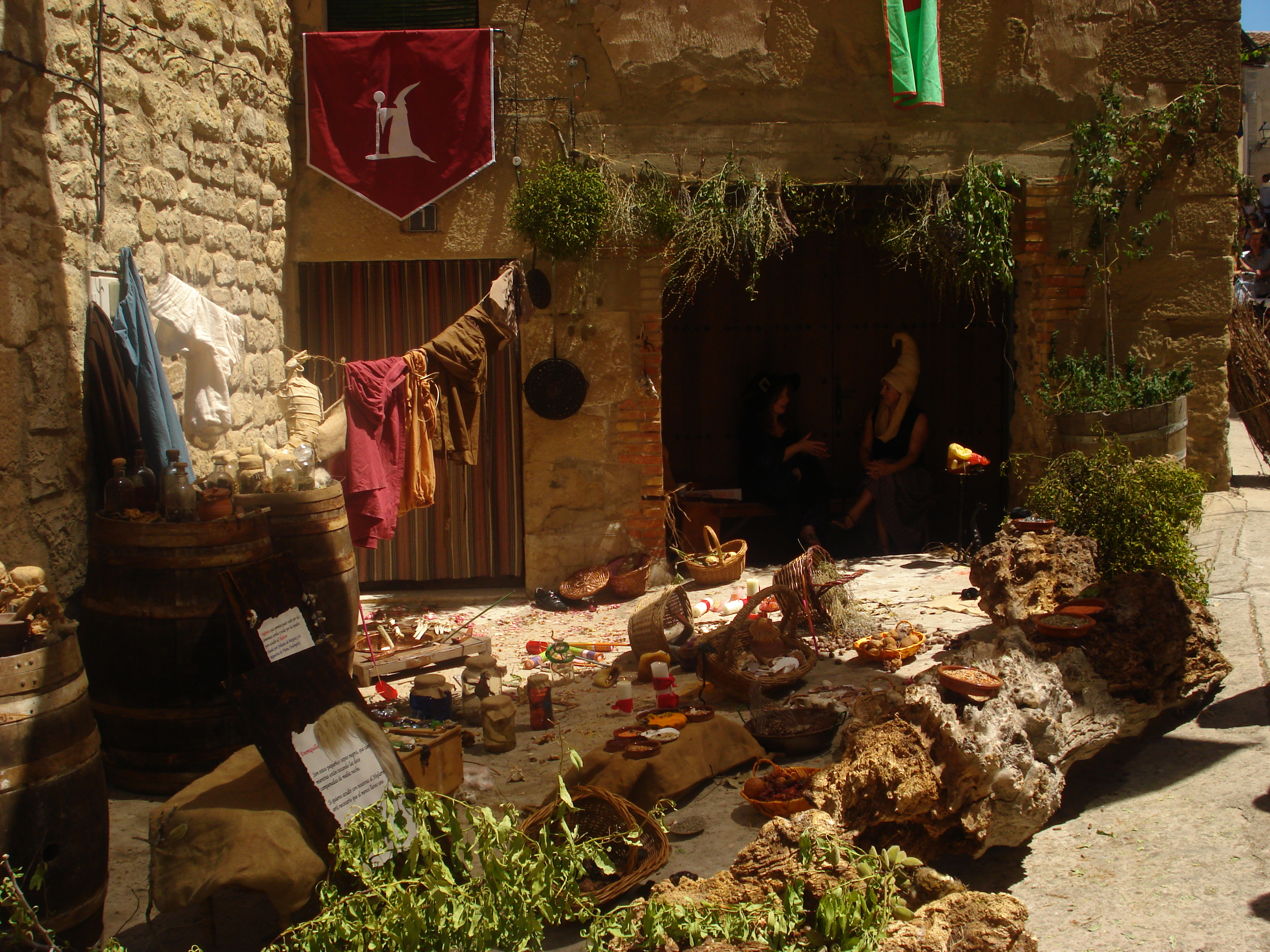 Bargota's witchcraft week